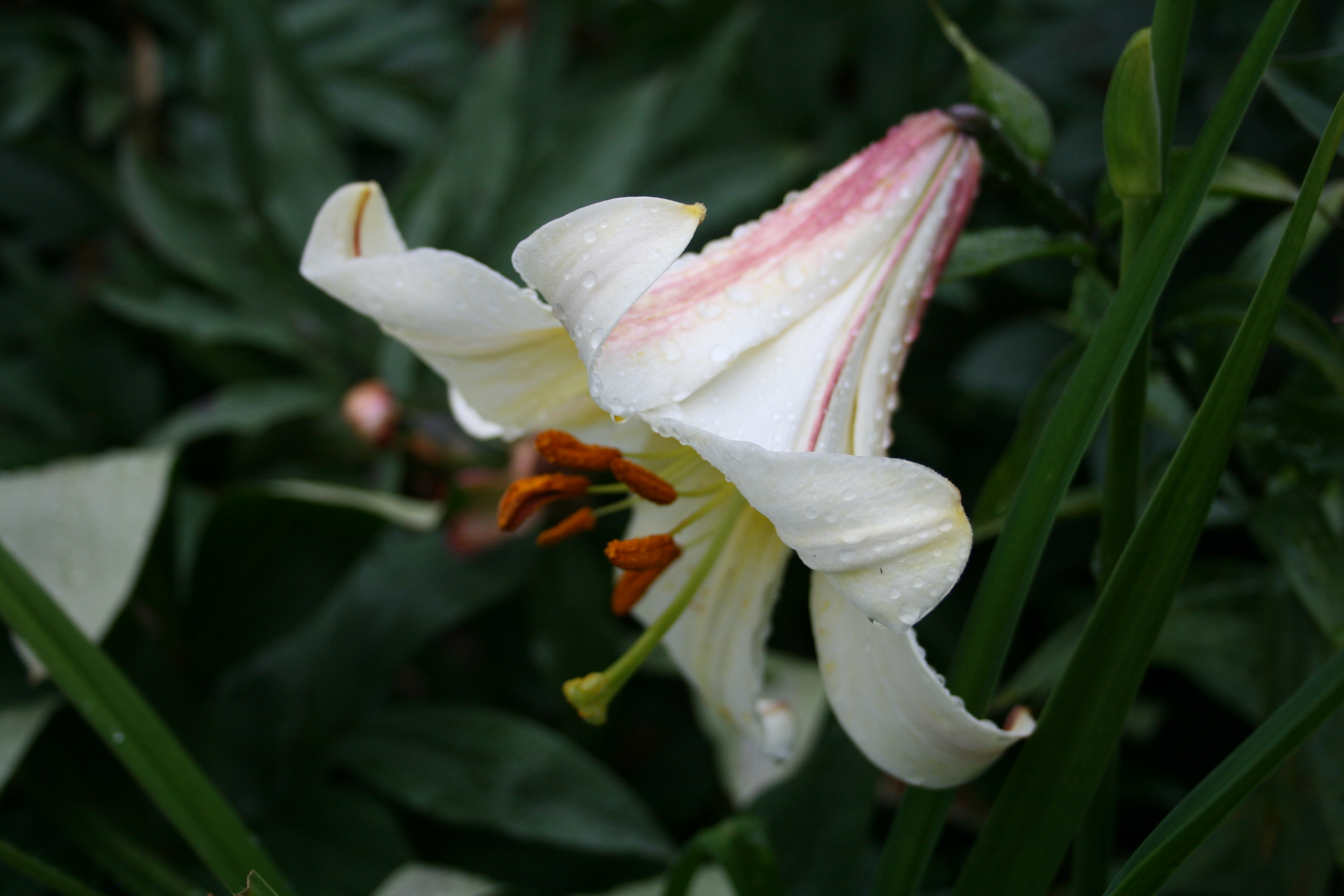 Lilium 'Fanfare'